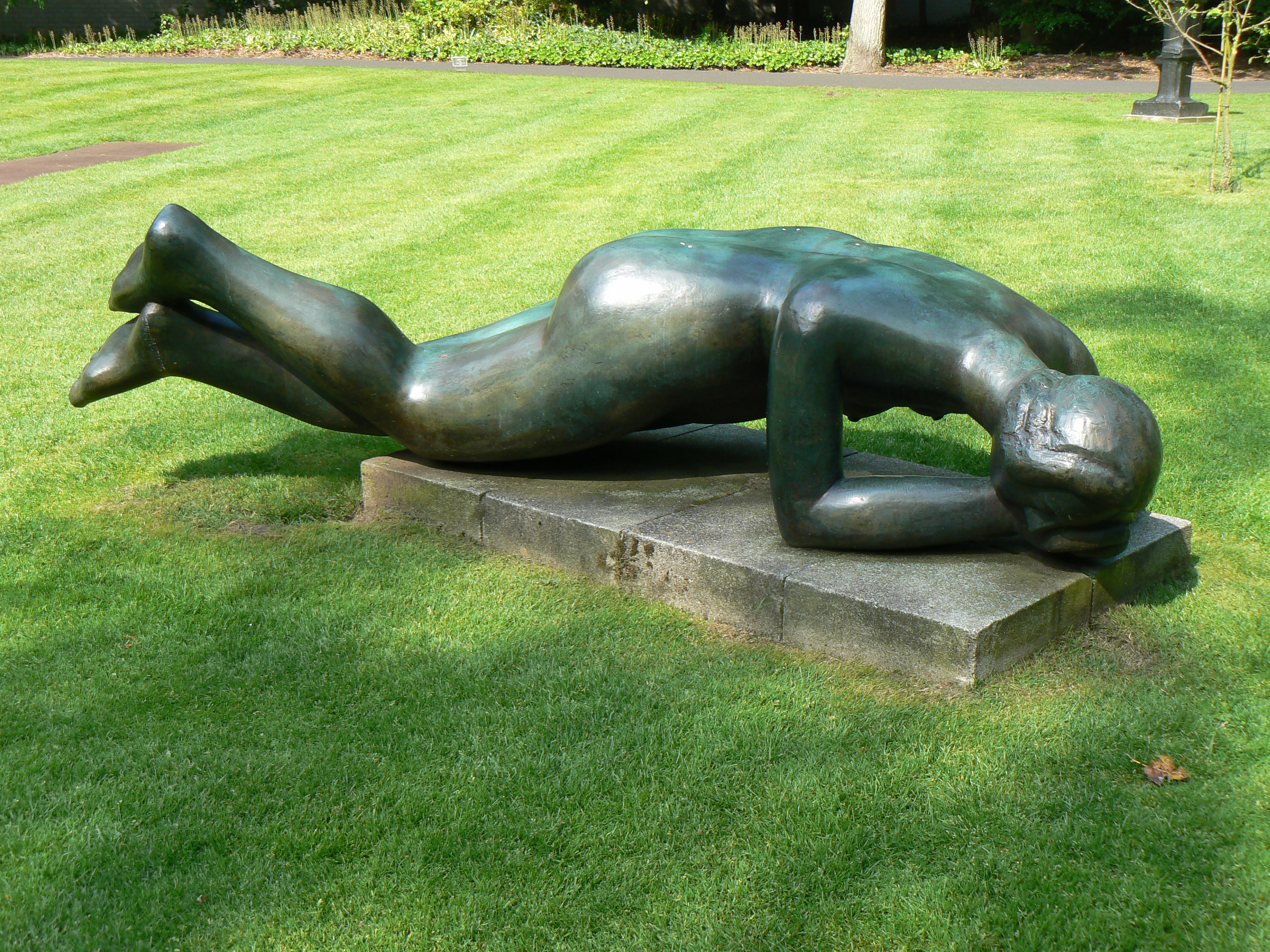 sculpture Niobe (1951) by Constant Permeke in sculpturepark KMM/The Netherlands